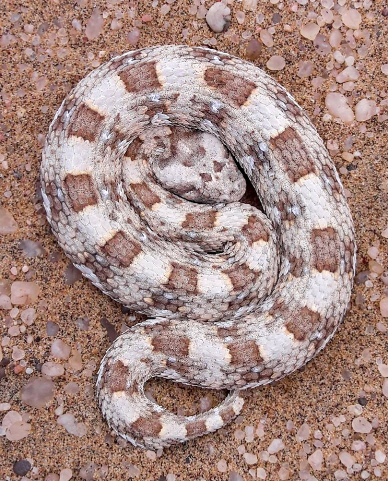 Bitis caudalis - Namibia